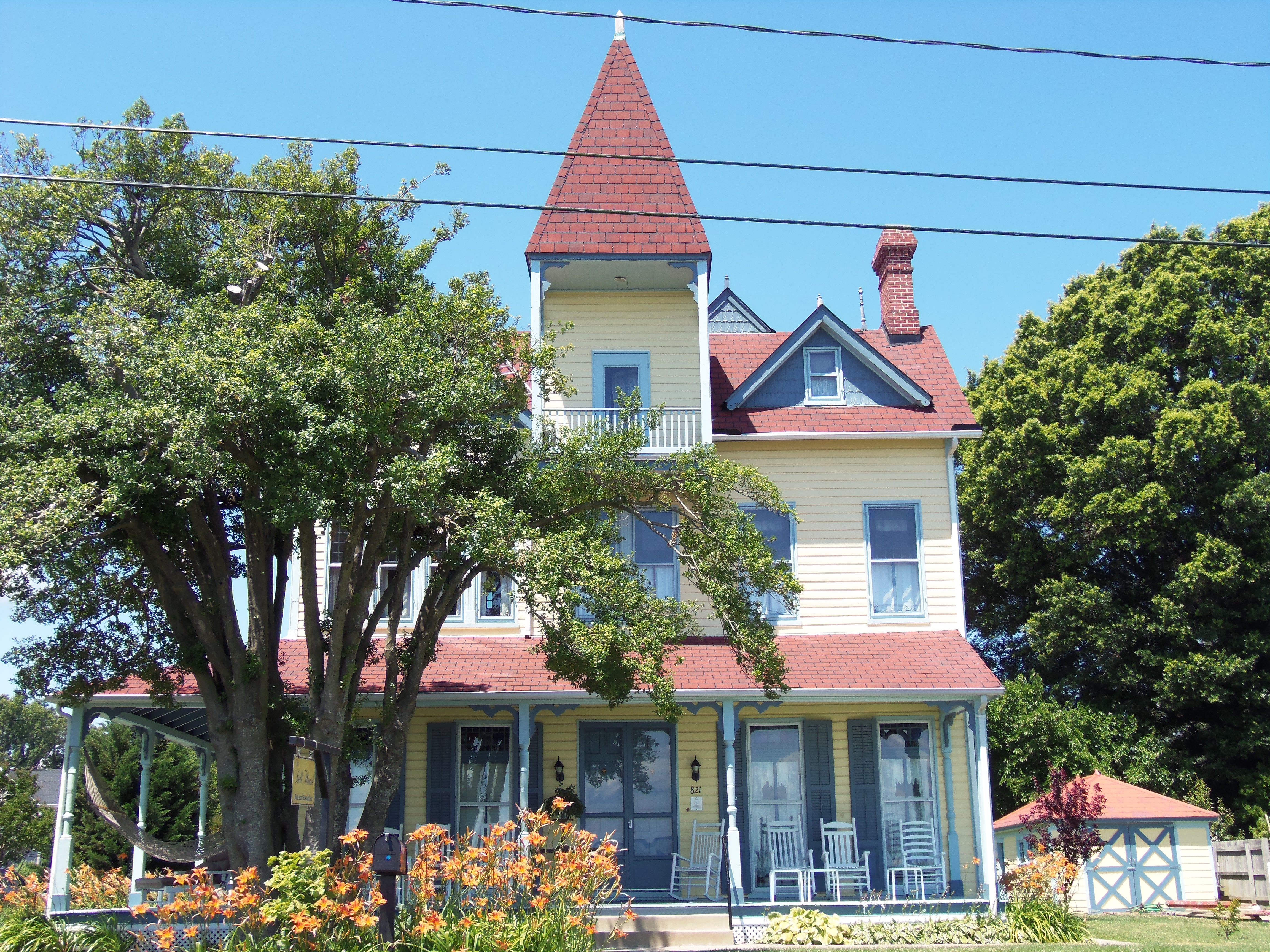 The Bell House, 821 Irving Avenue, Colonial Beach, Virginia, USA.